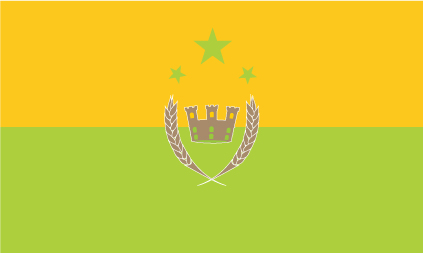 Flag of Sunchales, a city in Santa Fe Province.